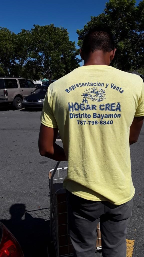 Young man wearing an Hogar Crea shirt in Puerto Rico